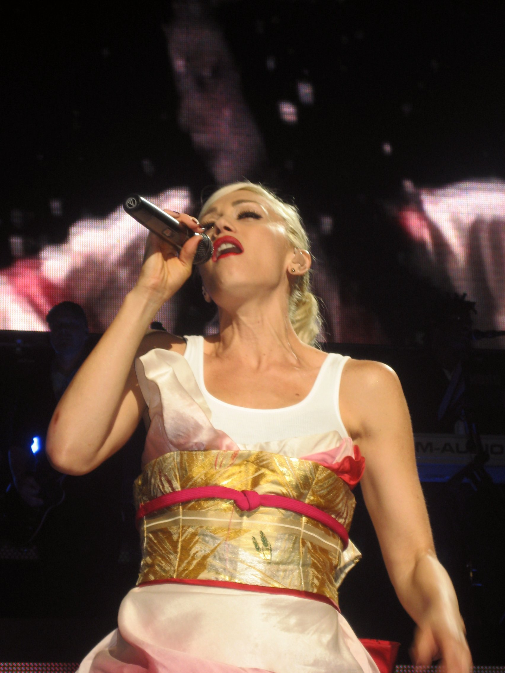 Gwen Stefani performing "Early Winter" at the Tweeter Center for the Performing Arts in Mansfield, Massachusetts, United Statesgwen